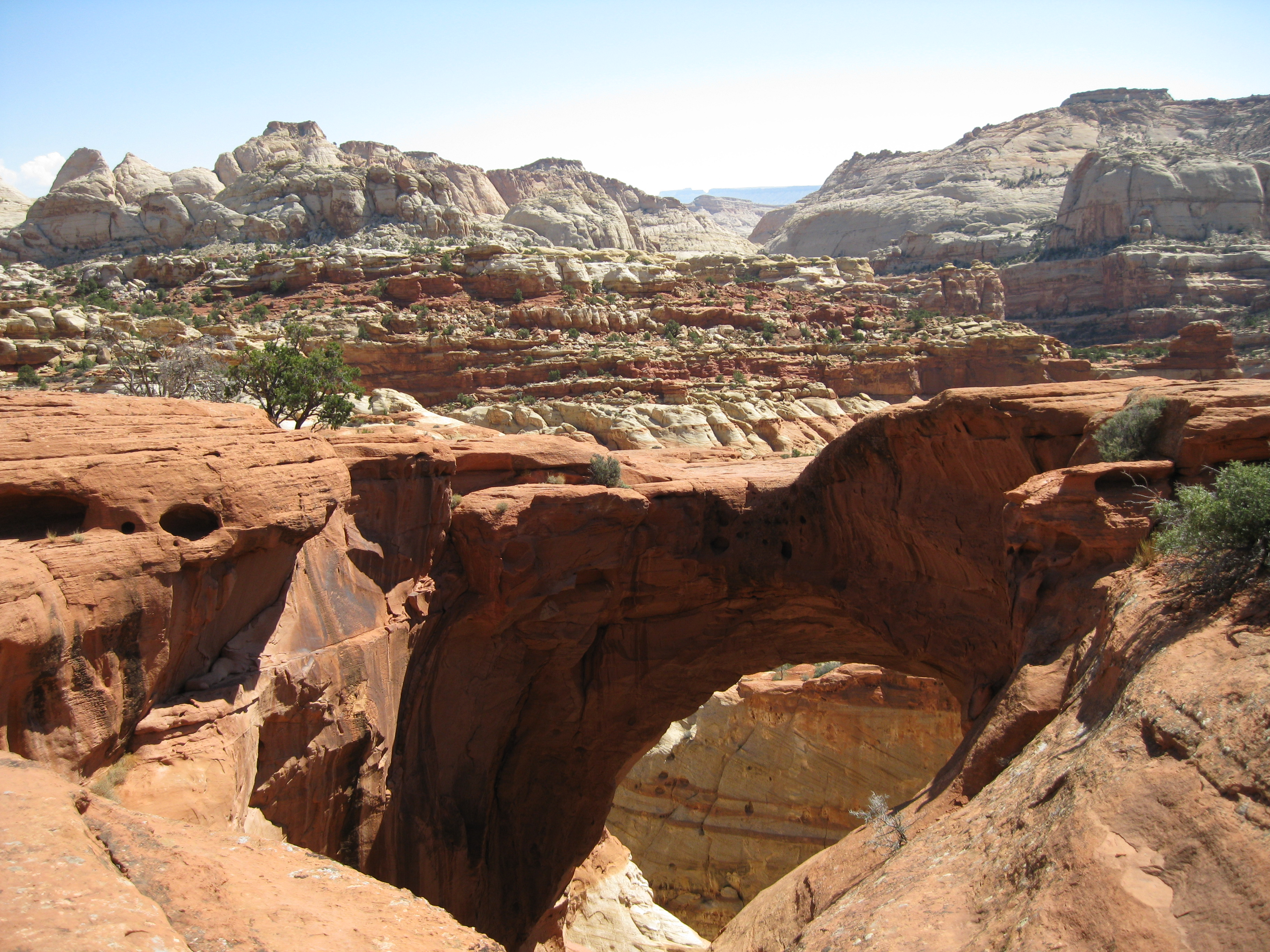 Cassidy Arch in Utah's Capitol Reef National Park